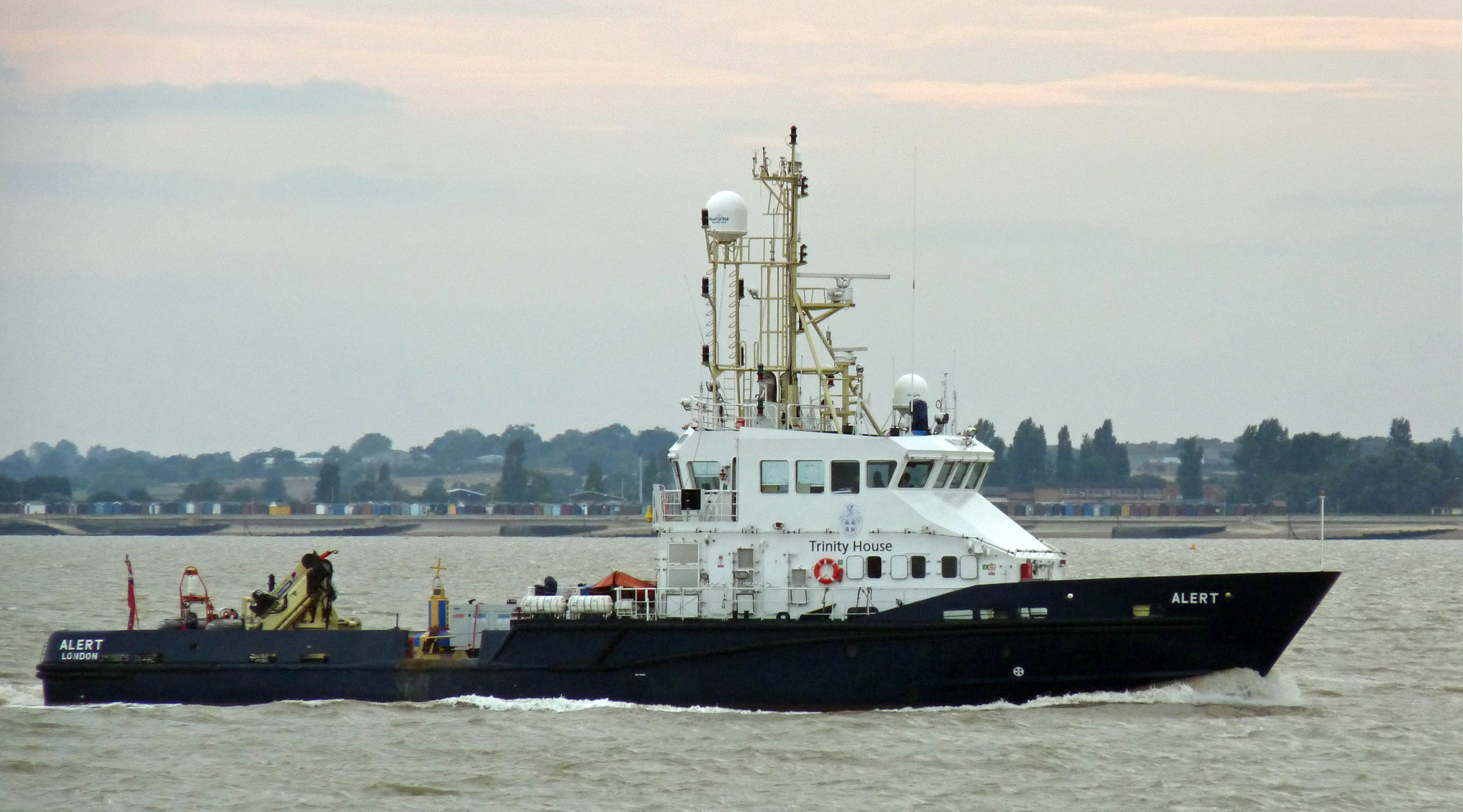 THV Alert entering Harwich Harbour taken from Landguard Fort Felixstowe IMO Number: 9338618 MMSI Number: 235010680 Callsign: MLPH9 Length: 39.0m Beam: 8.0m